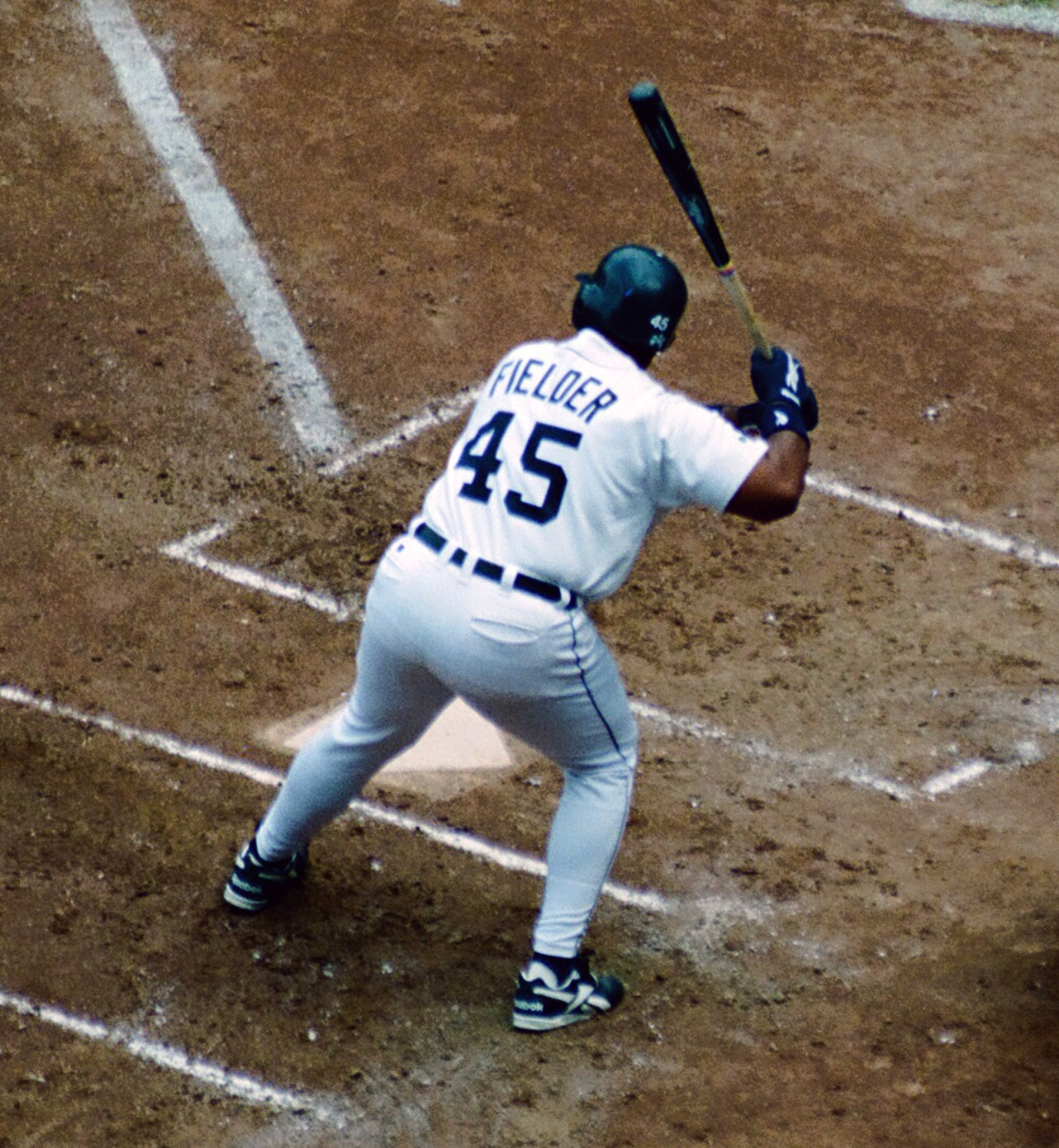 This sequence shows Cecil Fielder hitting a grand slam home run.